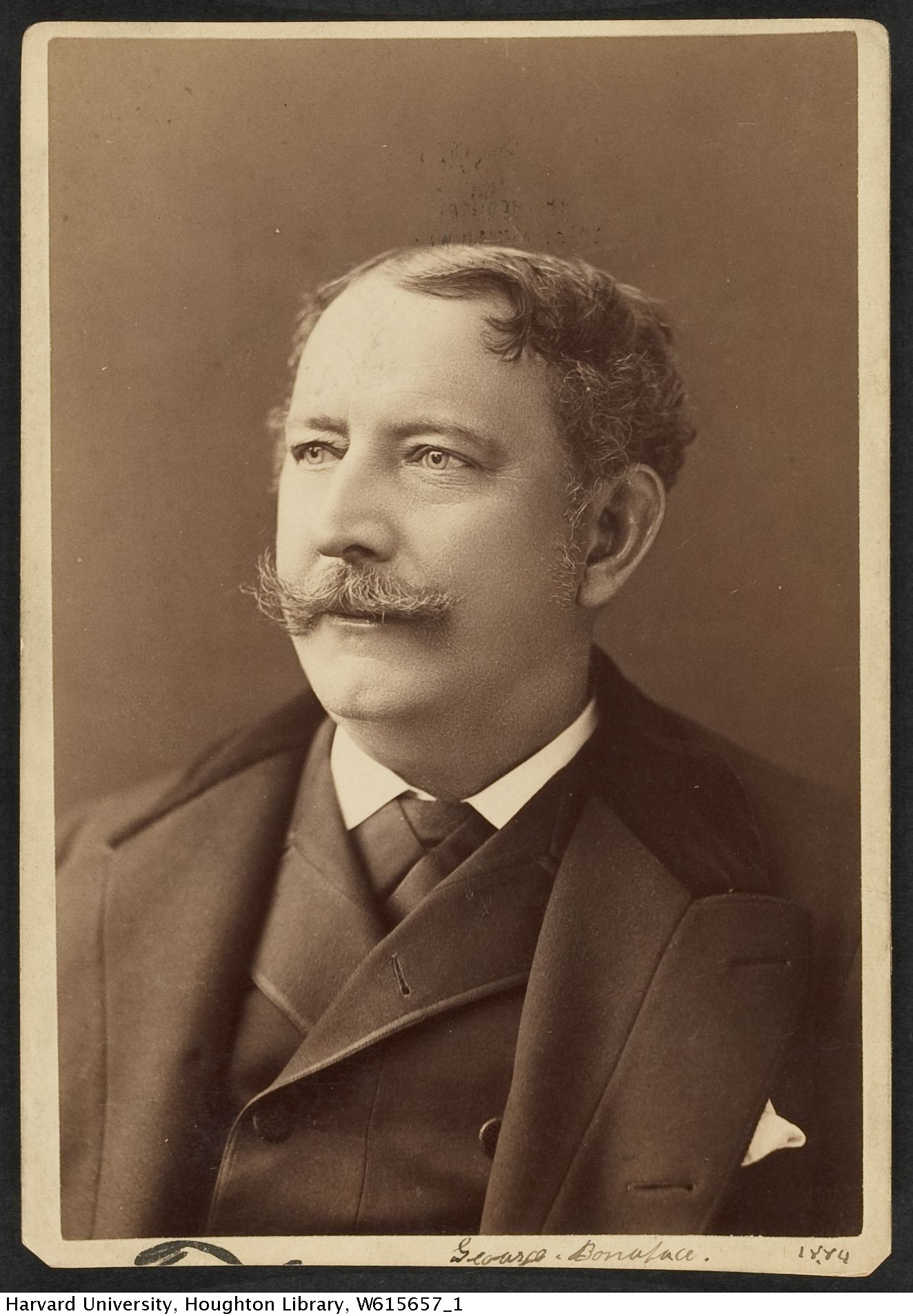 Cabinet card image of American actor George C. Boniface, Sr. (1832-1912). Date "1884" written on original. TCS 1.2755, Harvard Theatre Collection, Harvard University